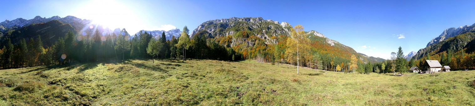 360-degree panoramic of Robanov kot